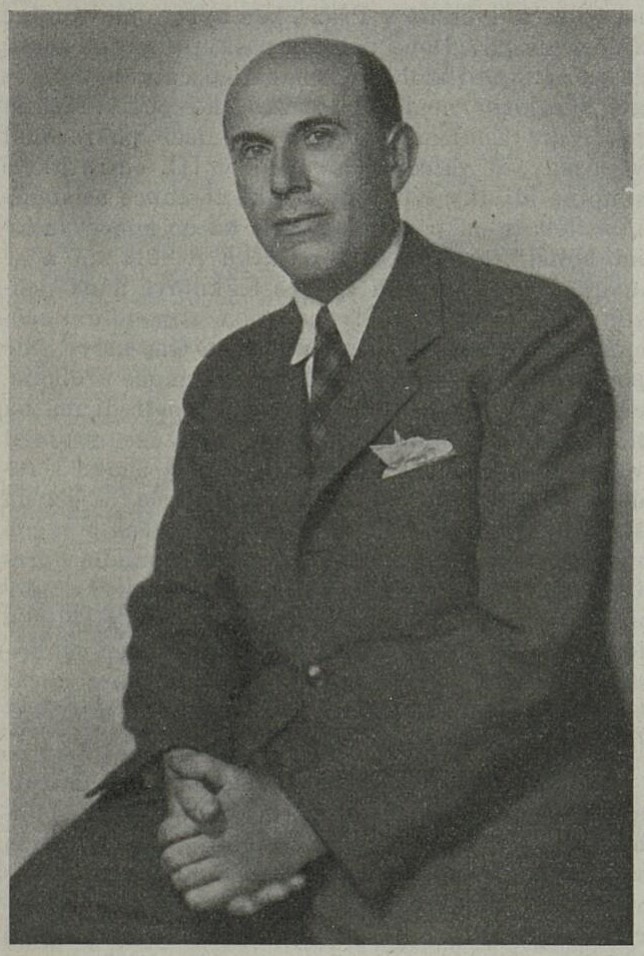 Portrait of Josef Rejsek (1892-1936), Czech physician-urologist